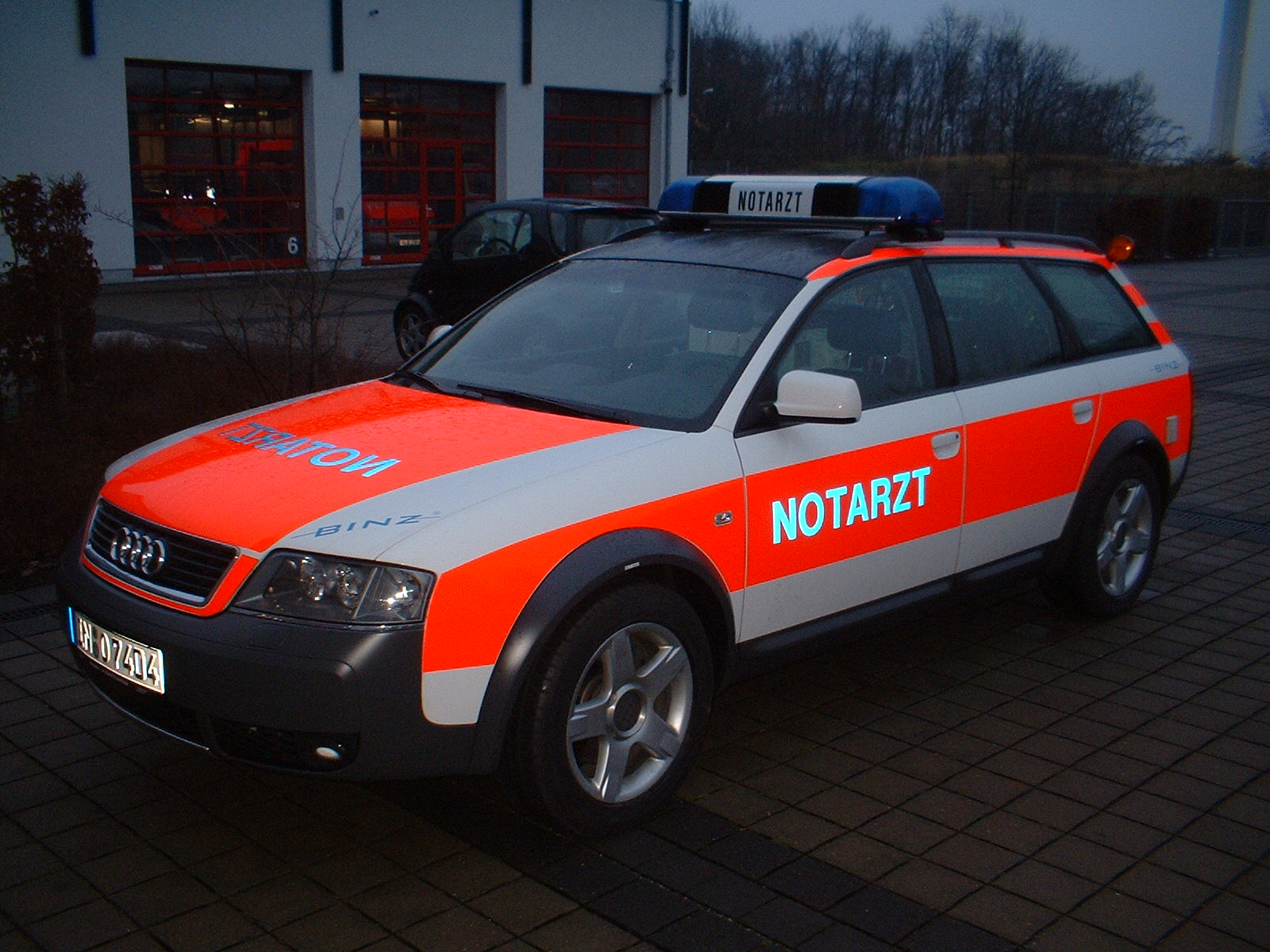 Audi Quattro at Bergisch Gladbach, with "NOTARZT" in mirror writing ("TZRATON").